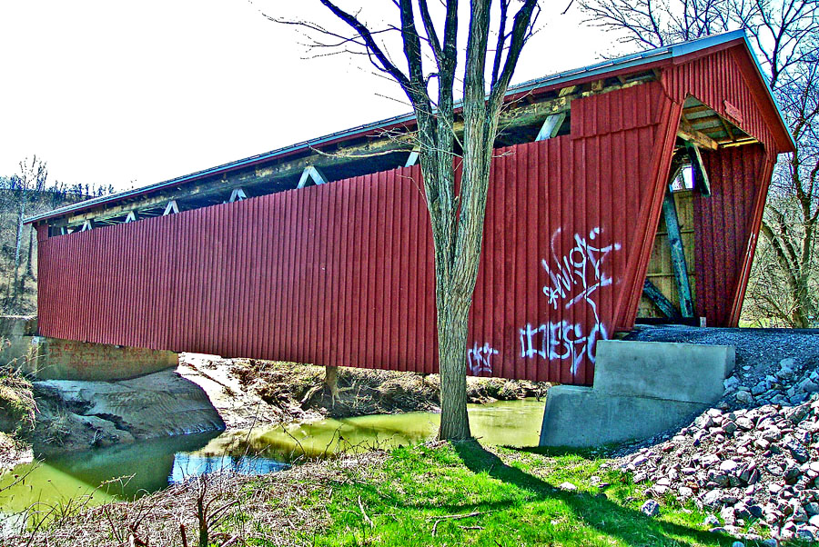 Rebuilt Byer Covered Bridge in Jackson County, Ohio spans the polluted Pigeon Creek. Many waterways in Appalachia run this color which is caused by run-off from old coal mines.